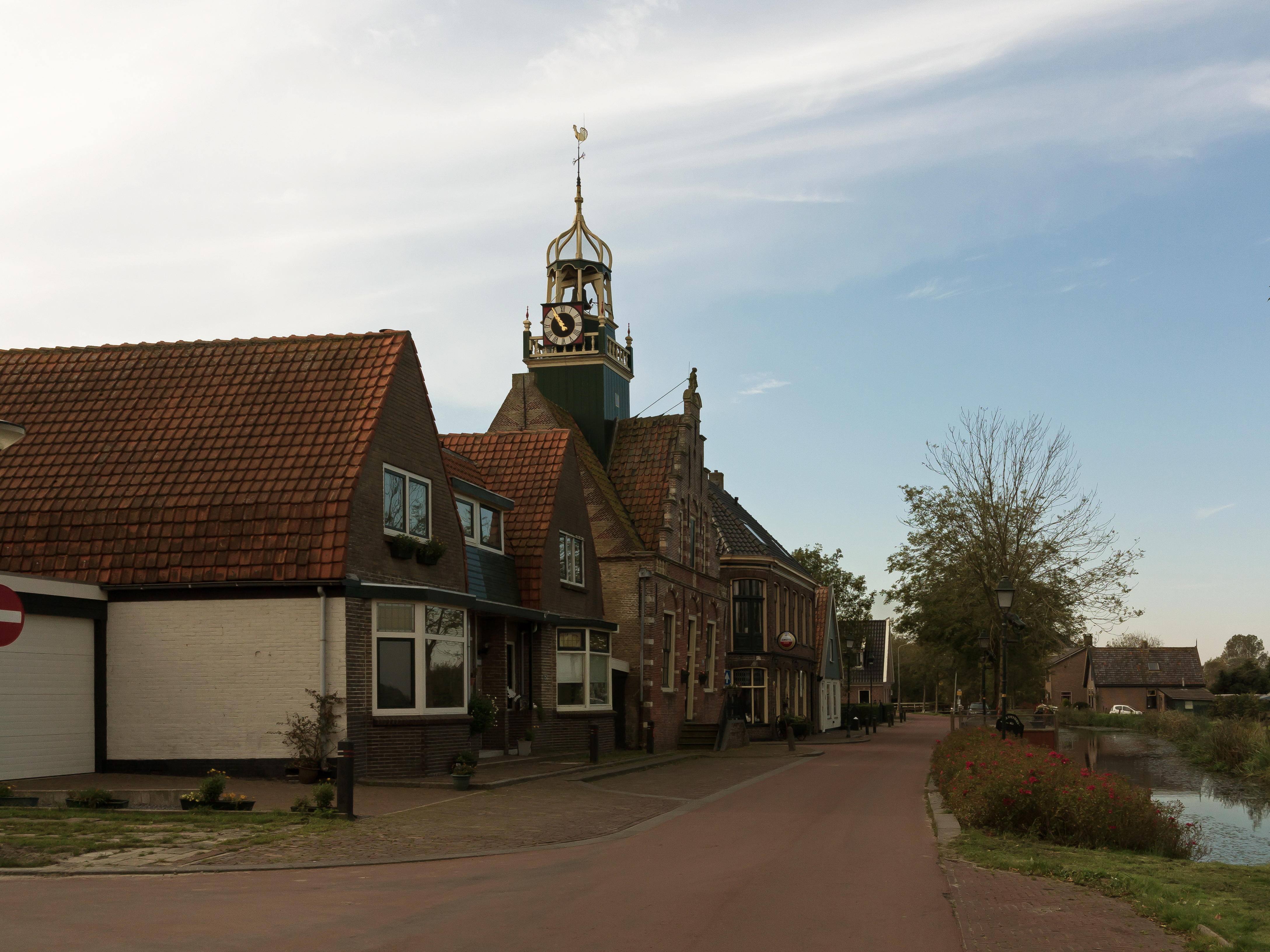 Barsingerhorn, former townhall in the street